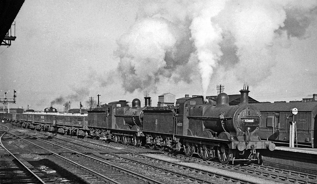 Double-headed train of bricks off Bedford line at Hitchin Station. View northward from the Down platform, towards Peterborough on the ex-Great Northern East Coast Main line, also Cambridge, and - at that time - Bedford on the ex-Midland line. The heavy train is being hurried across the busy ECML onto the Up Platform line by ex-Midland 3F 0-6-0s Nos. 43808 + 43766.